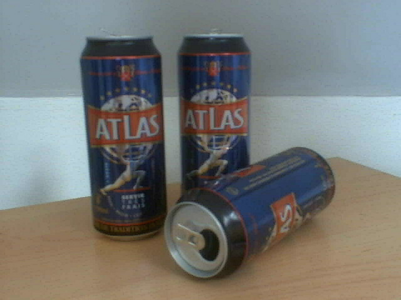 Empty Atlas beer cans.